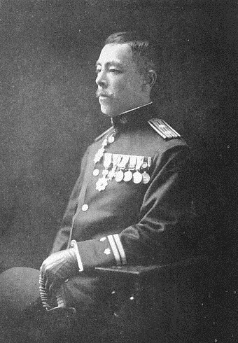 Yoshinori Satake